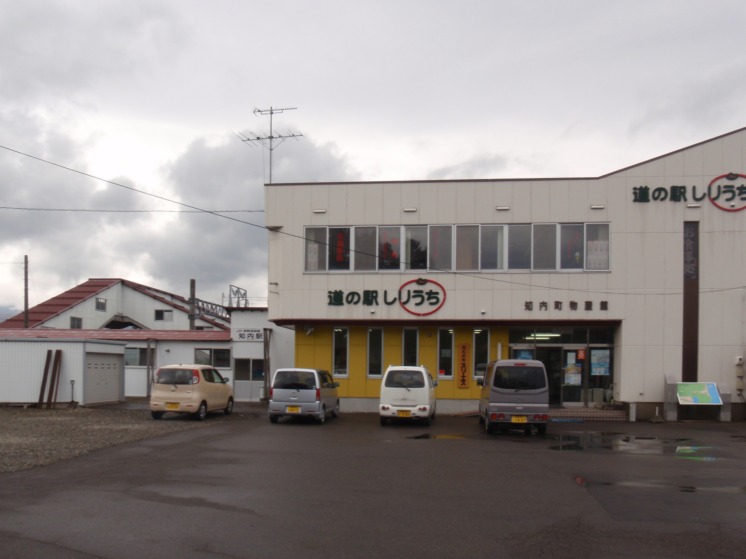 Shiriuchi Station (left) and Michinoeki Shiriuchi (Shiriuchi Roadside Station, right)